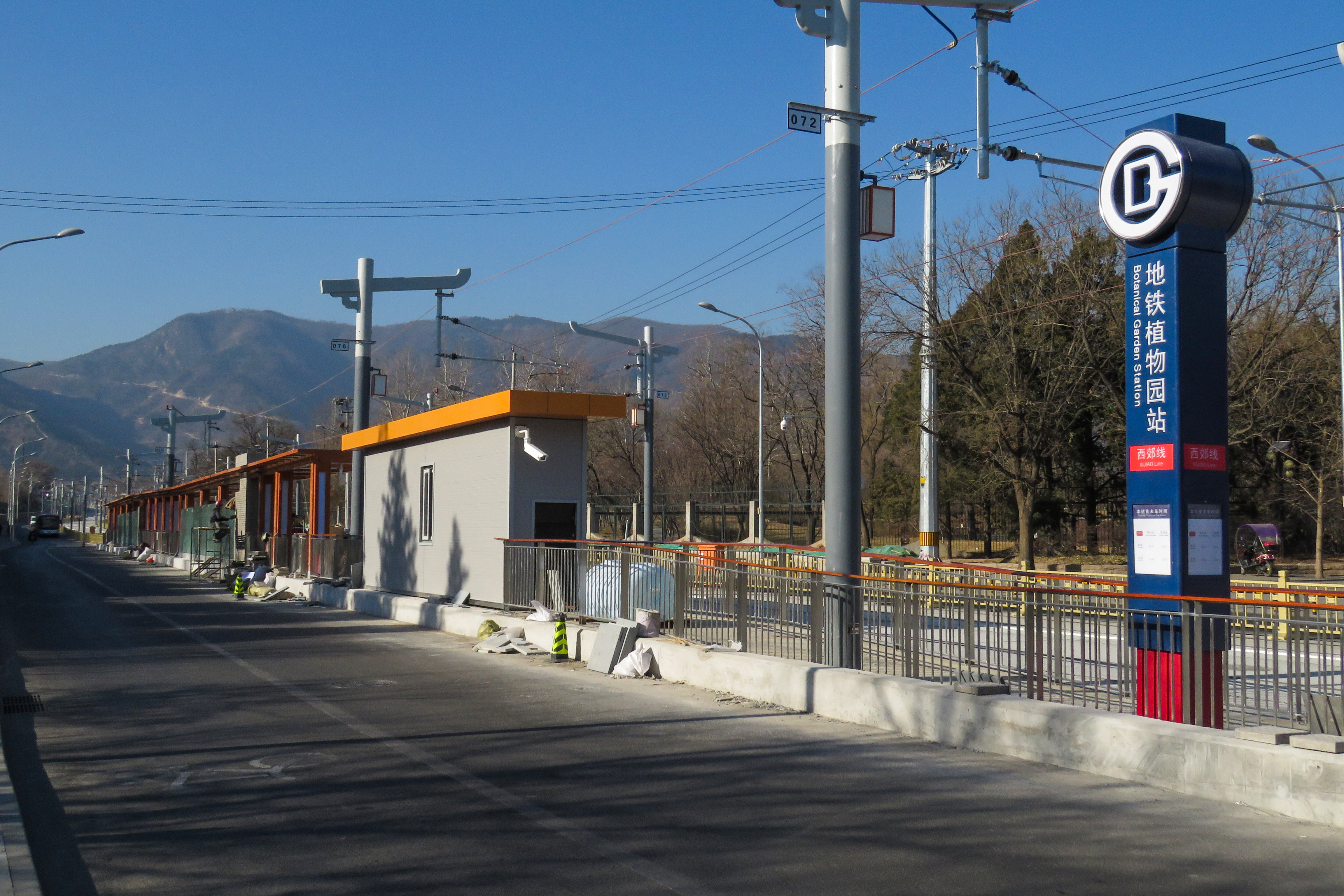 Yes, its name isn't Beijing Botanical Garden Station.